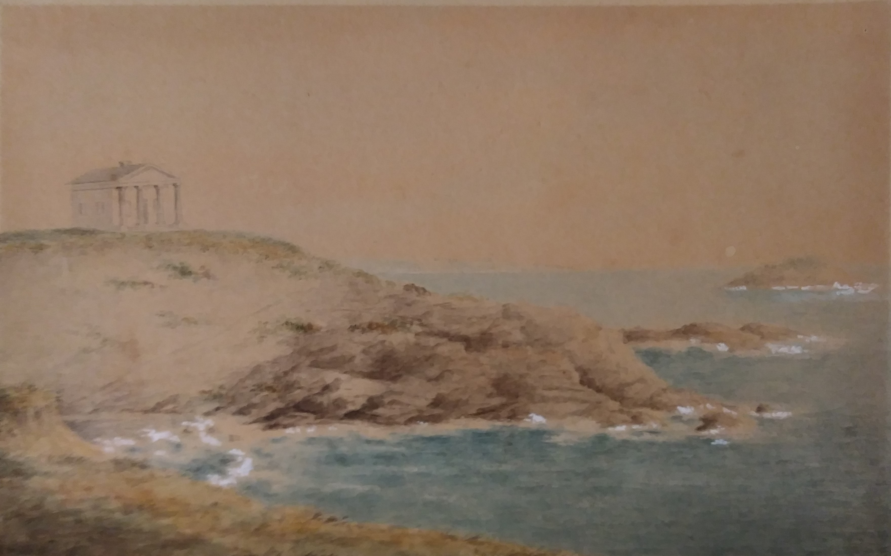 Drawing, painting